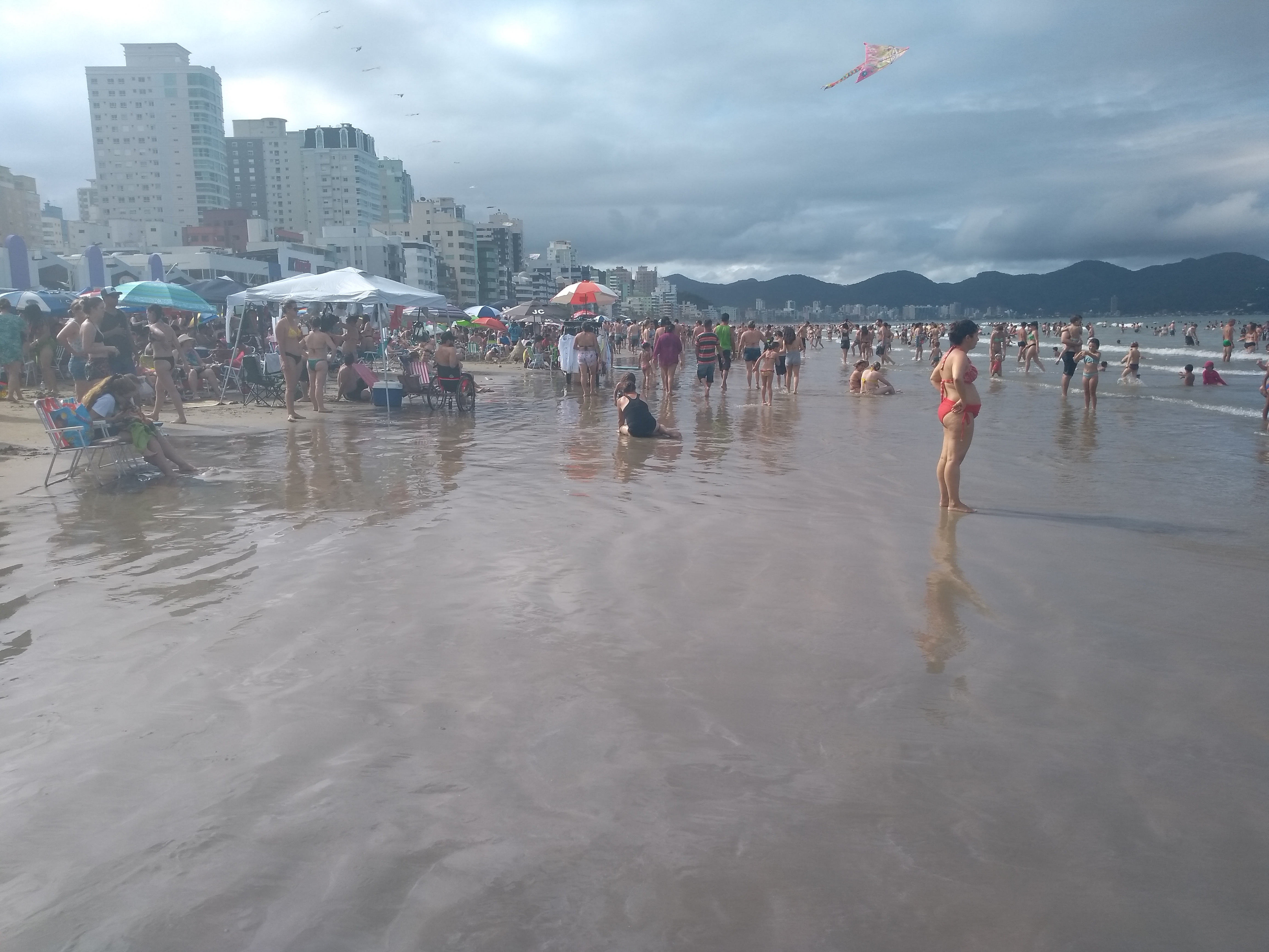 Itapema Meia Praia's beach 2018.